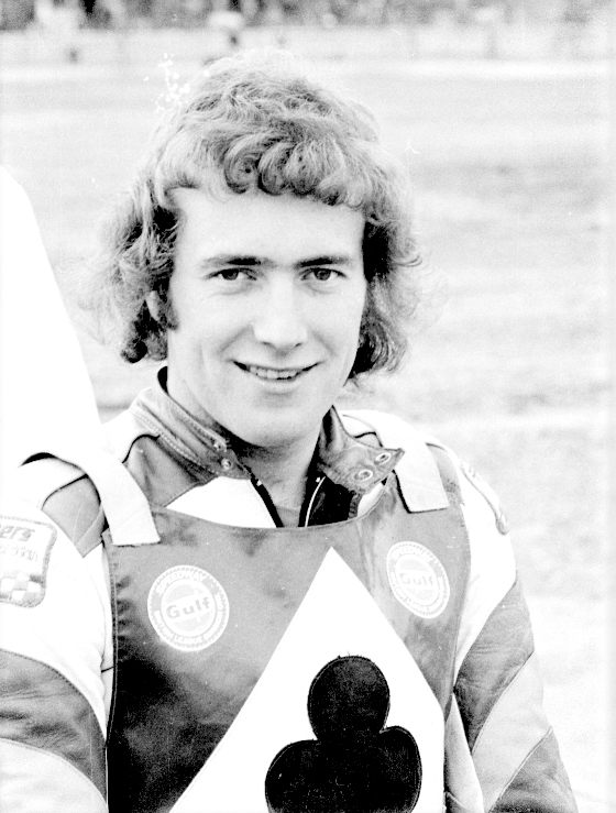 Peter Collins, here as Belle Vue Ace. World Champion 1976